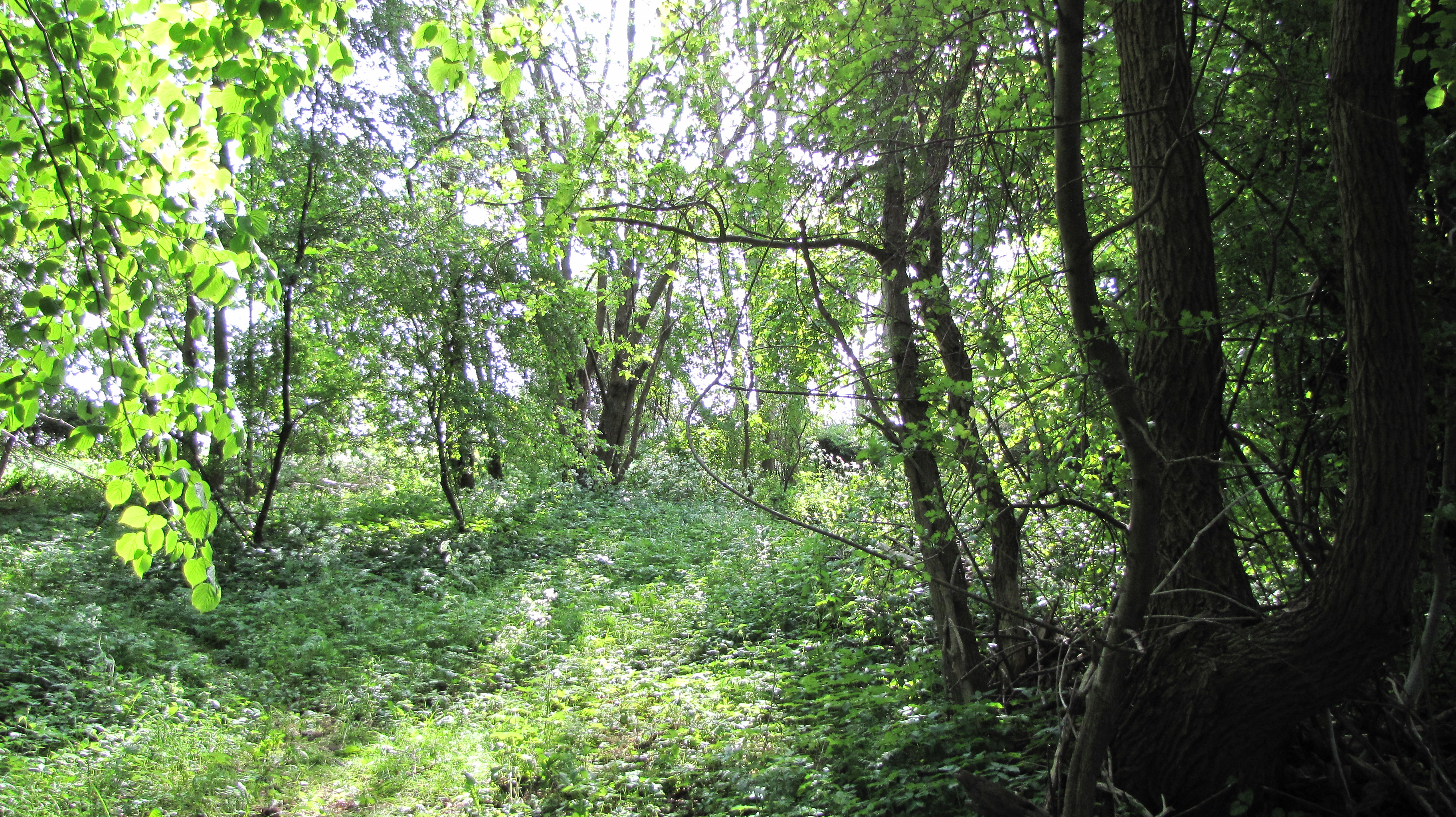 Site of demolished Siechenhaus chapel near Dassow